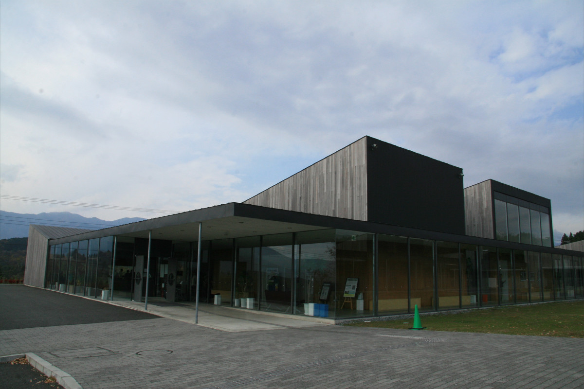 Fuji guide dog center 'Fuji harness'